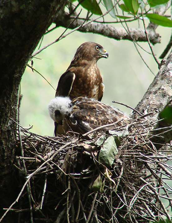 Broad-winged Hawk. Adult and Nestling. (Puerto Rico)